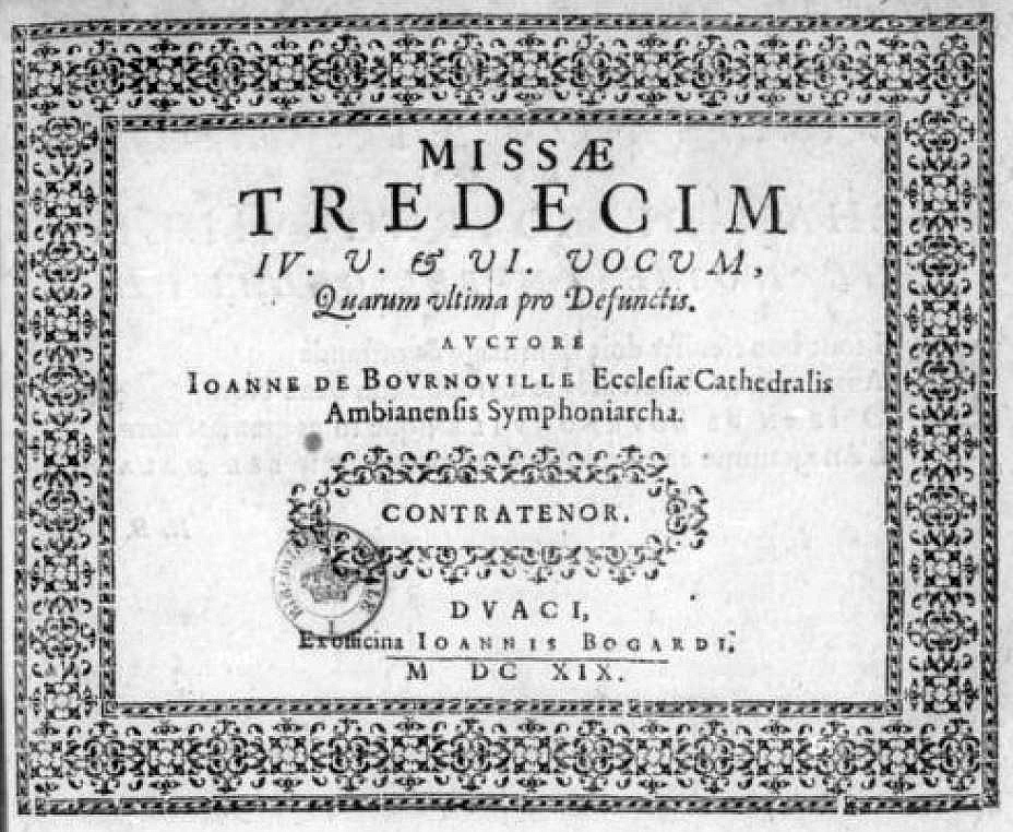 Title page of Jean de Bournonville Missae tredecim (Douai, 1619)